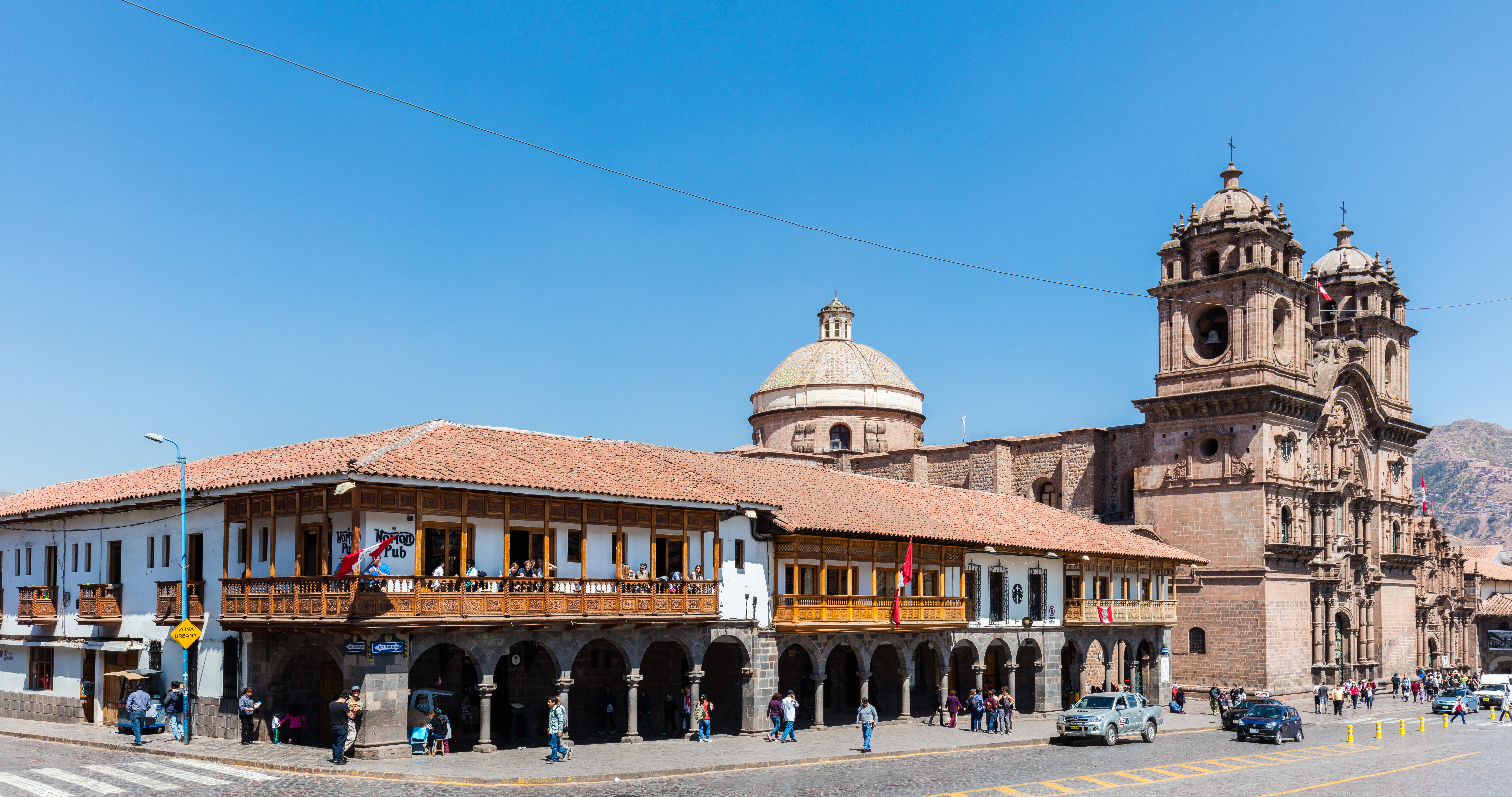 Society of Jesus church, Plaza de Armas, Cusco, Peru